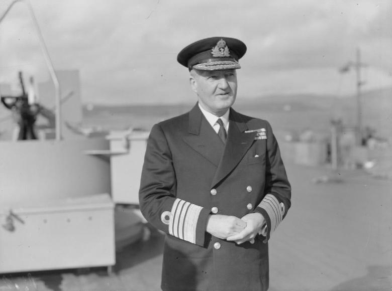 Commander in Chief of the Home Fleet Admiral Sir Bruce A Fraser, KBE, CB when he took over from the retiring Commander in Chief, Admiral Sir John C Tovey, KCB, KBE, DSO.